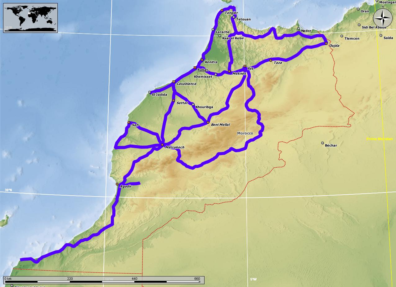 Map showing the terrestrial fibre optic cable line for Maroc Telecom. Used the data from: selected the KML for Morocco. Then used the Marble program with the "Atlas" map to show the network. PD NASA map, KML is under the CC-by-sa.